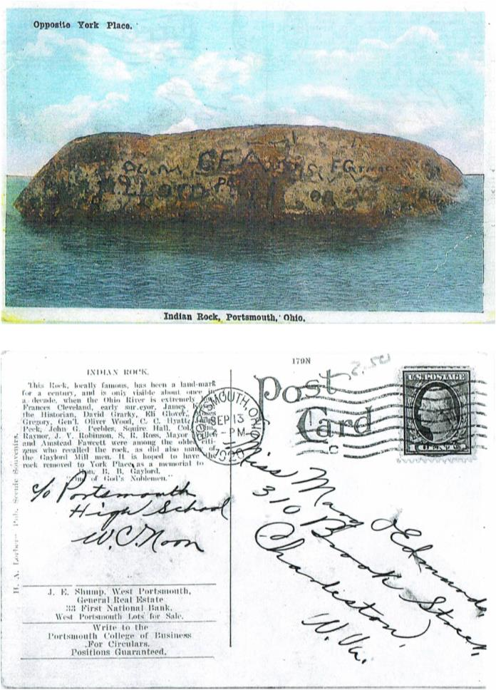 Commercial penny postcard from early 20th cent. features Portsmouth Indian Head Rock. Published by Henry A. Lorberg. Colorized.